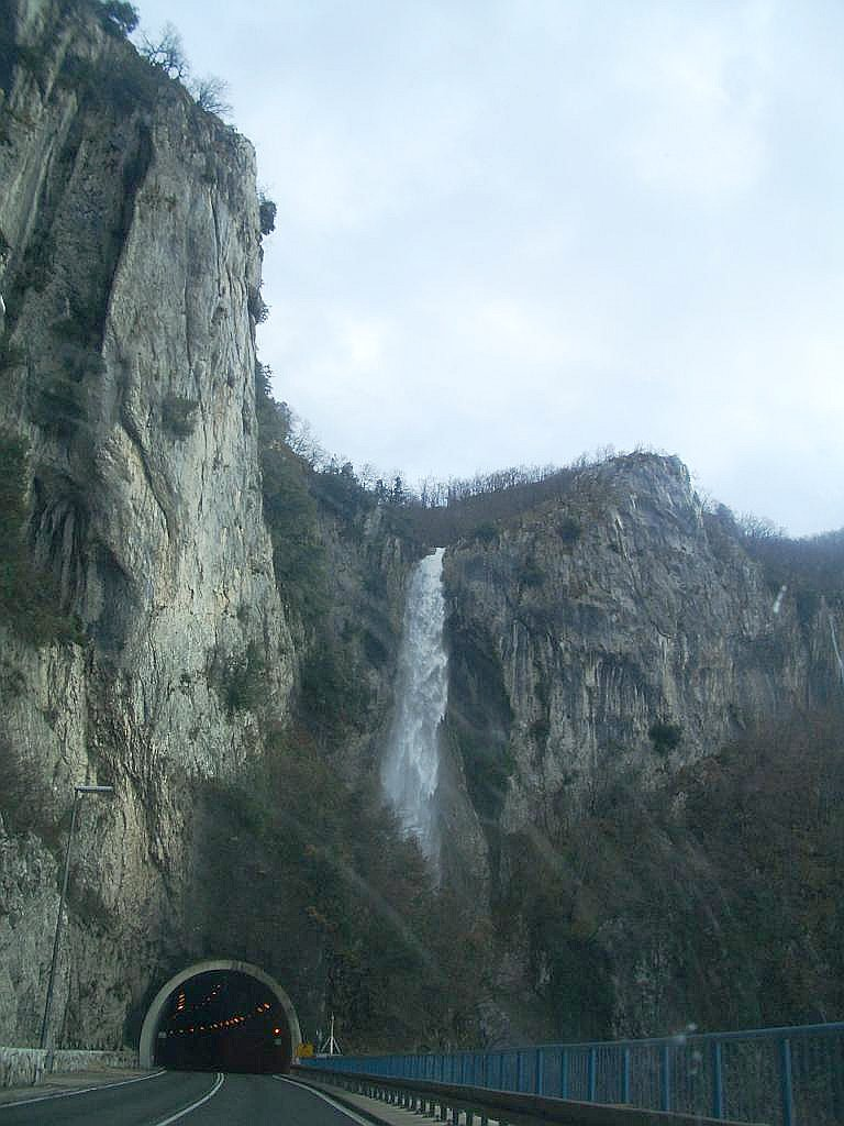 Entrance to the Učka Tunnel on the Istrian Y between Rijeka and Istria in Croatia.